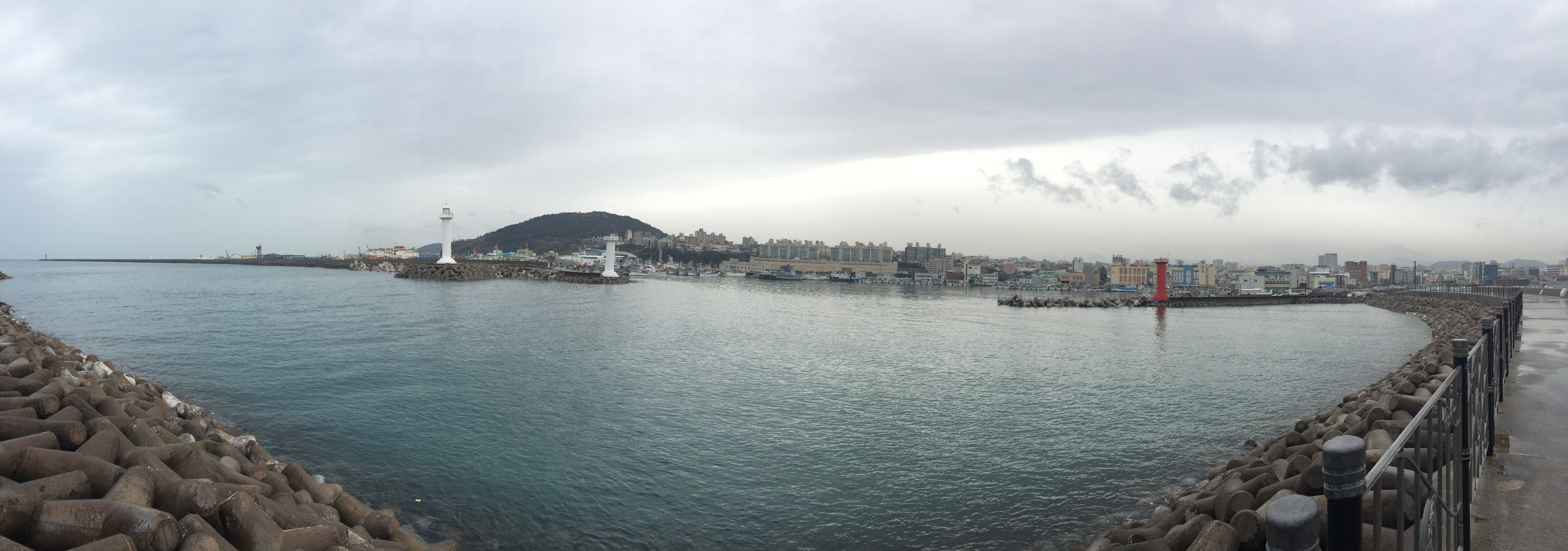 The west quayside of the port of Jeju at Jeju-do, Republic of korea